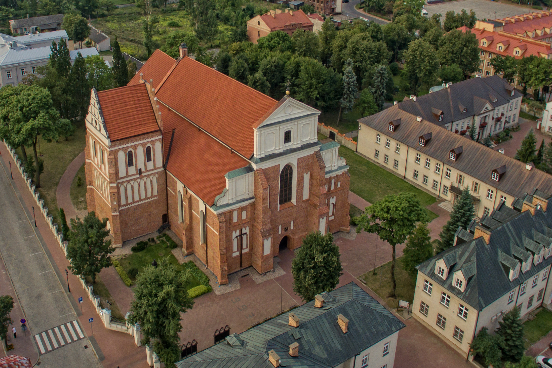 St. Michael Archangel Cathedral in Łomża (Poland) 02.1953.